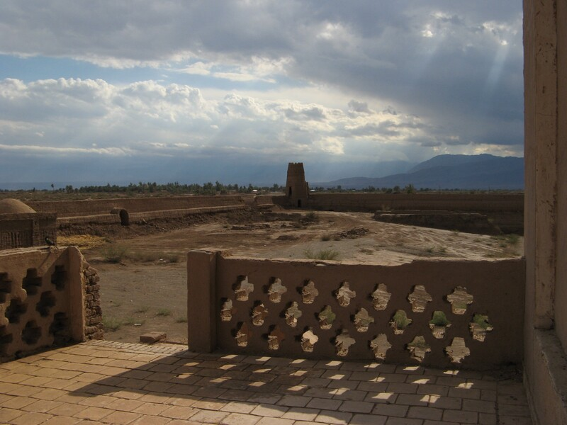 Seljuk era caravanserai — in Shafi Abad, Kerman province, southern Iran